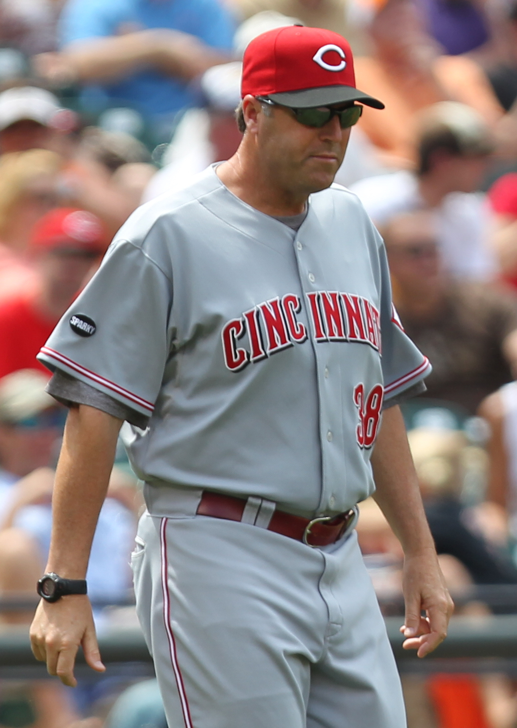 Reds at Orioles June 26, 2011